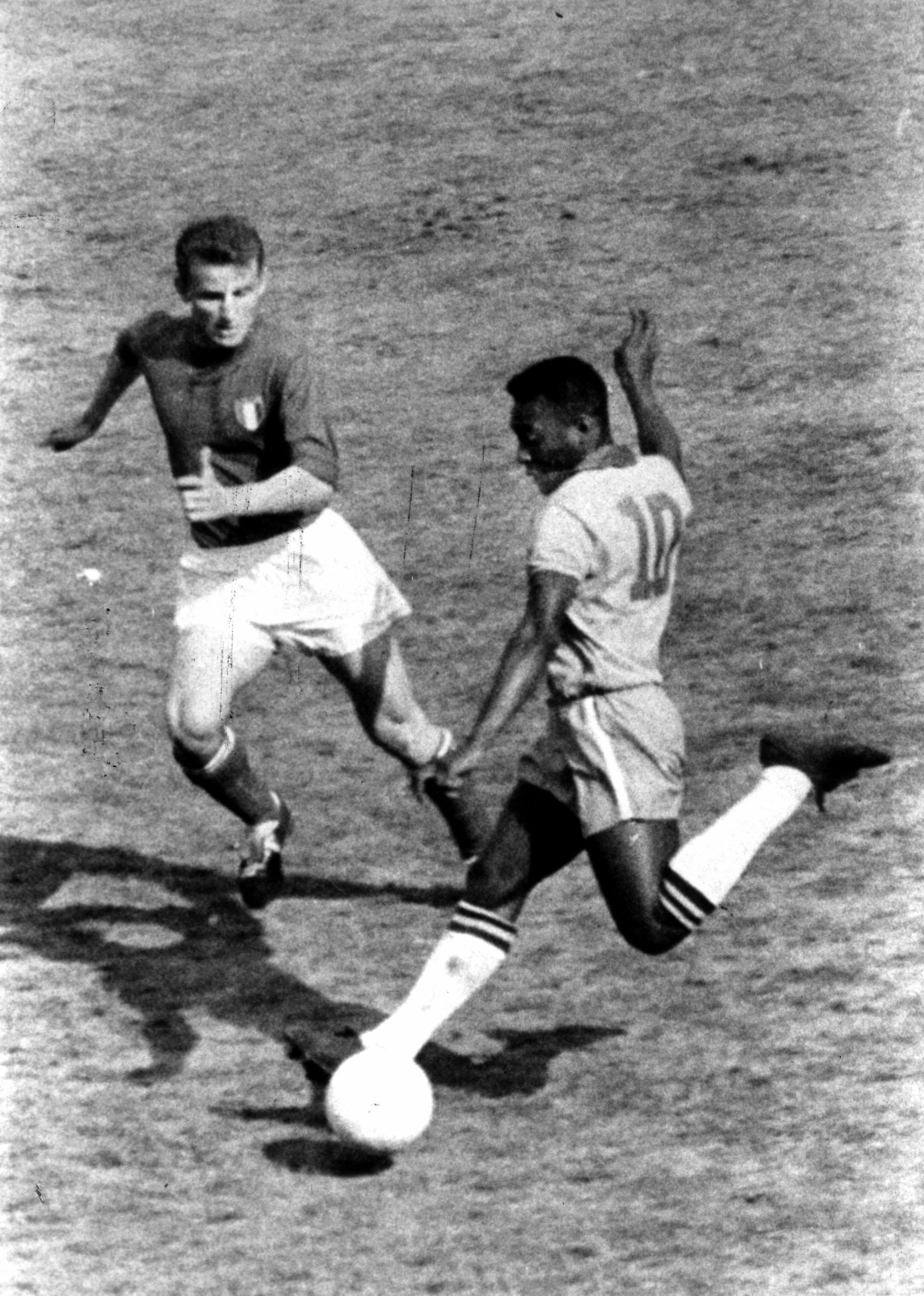 Milan, San Siro, May 12, 1963. Italy — Brazil 3-0, friendly match. From left to right: Italian defender Giovanni Trapattoni opposed to the Brazilian forward Pelé.